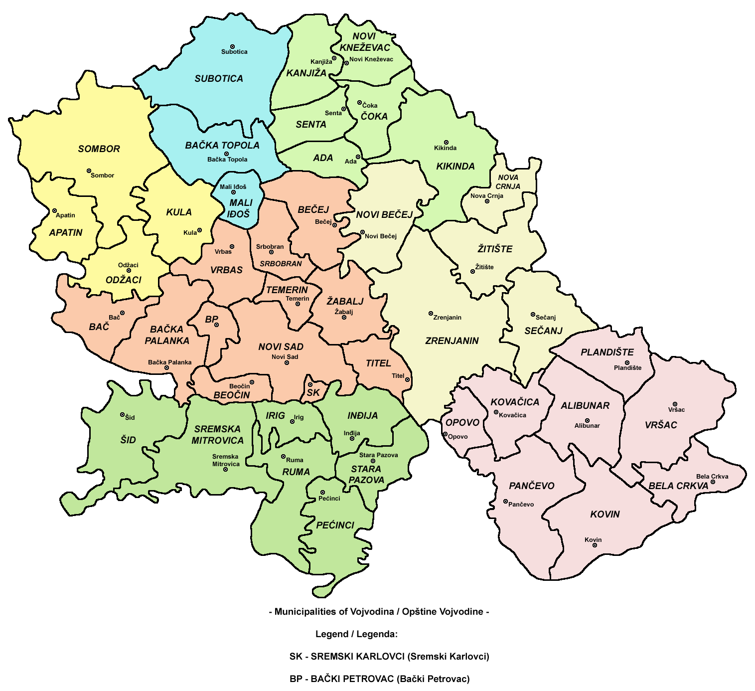 map of municipalities of Vojvodina